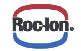 The Roc-lon logo was created in 1963.